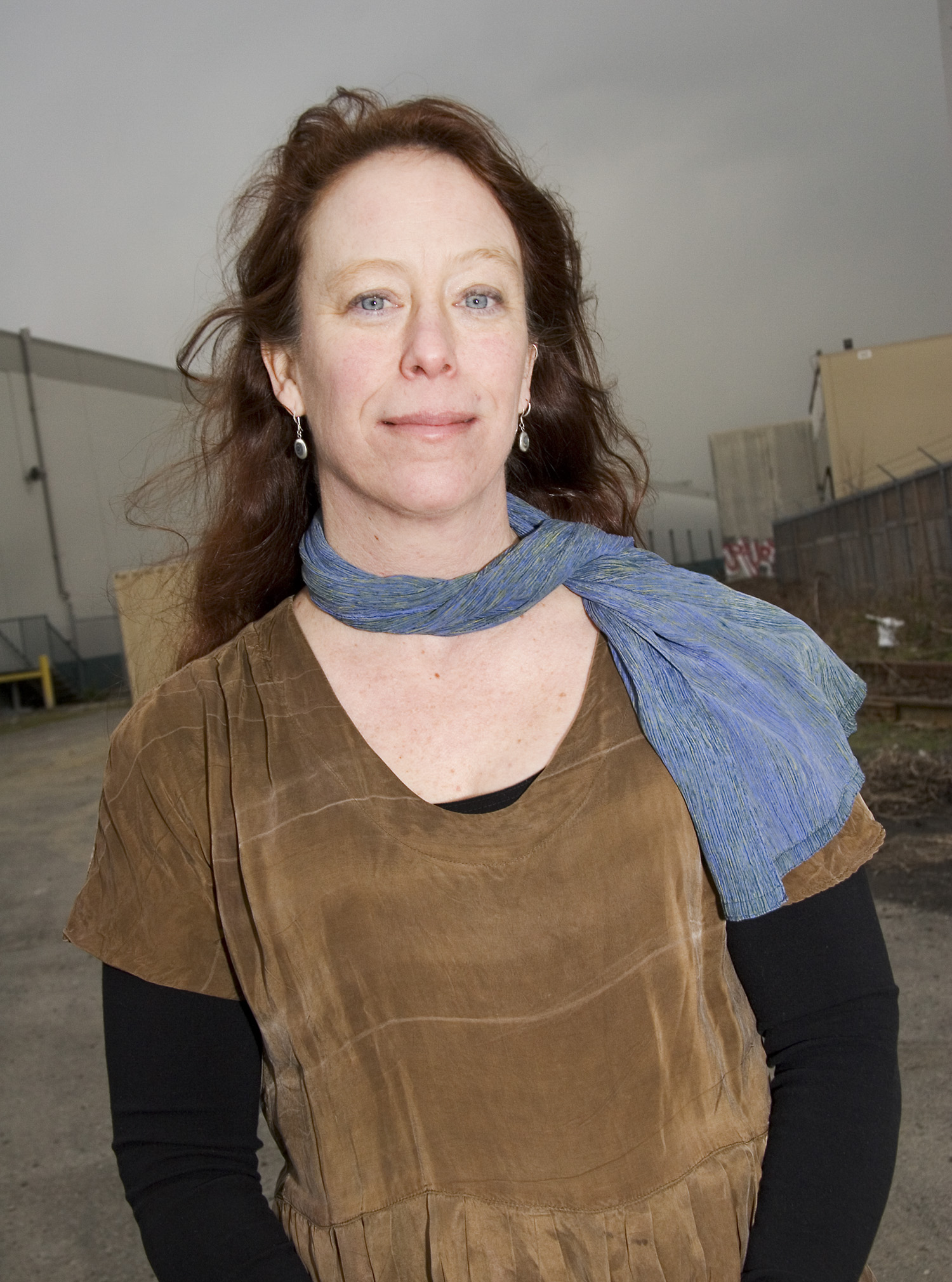 Photograph of Amy Denio, taken in Seattle Washington by Mark Sullo.